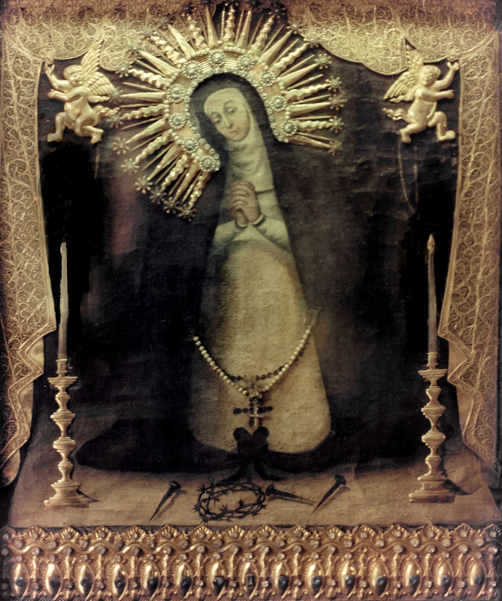 Our Lady of Solitude of Porta Vaga Before it was stolen